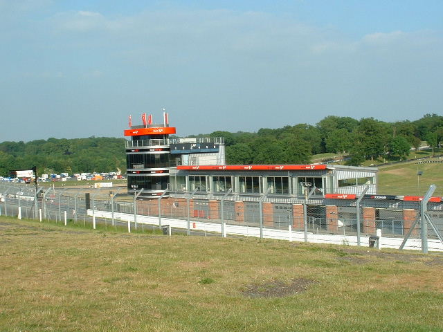 Brands Hatch. Main tower and stand looking South.